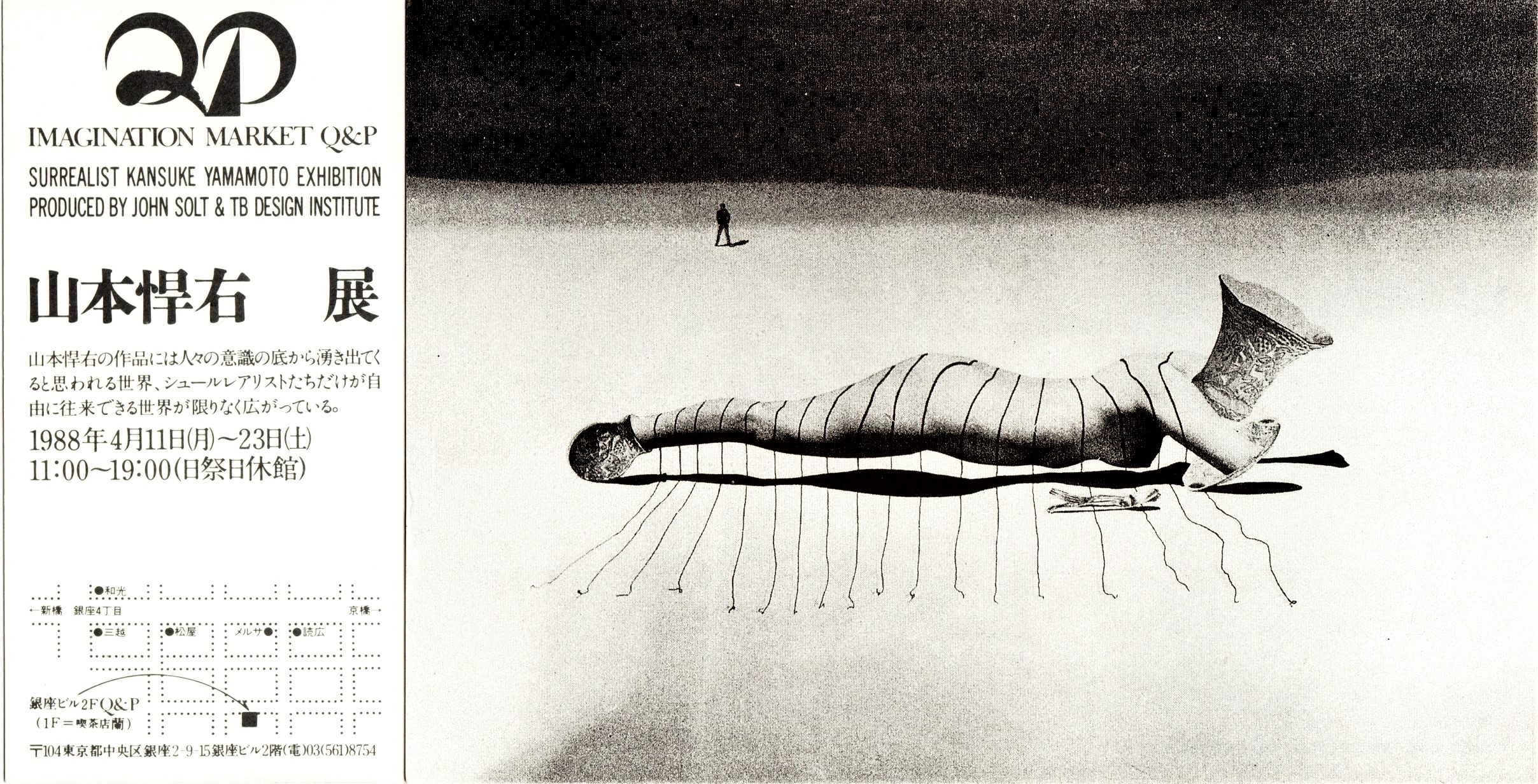 SURREALIST KANSUKE YAMAMOTO EXHIBITION 1988 Q&P Ginza Tokyo